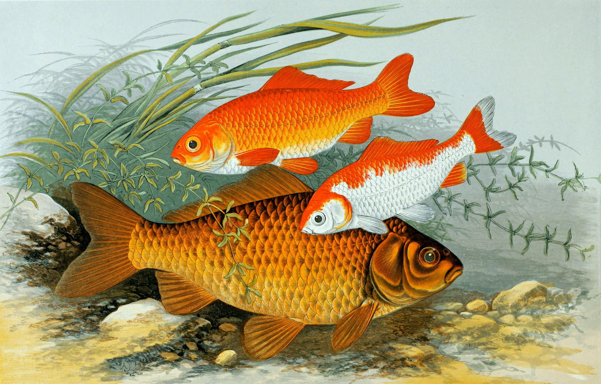 Golden carp - Carassius auratus from British Fresh-Water Fishes by Rev. William Houghton